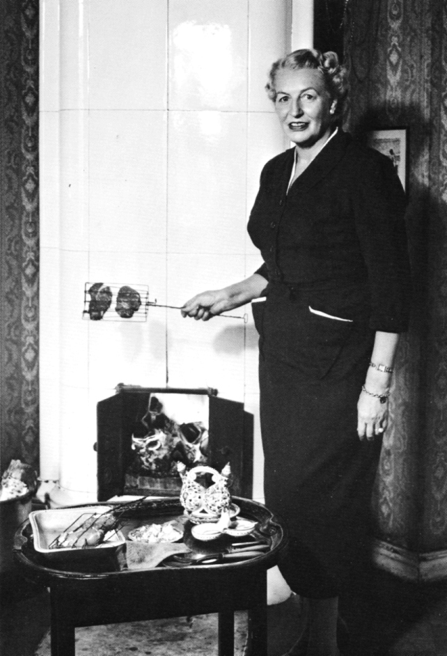 Photograph of the Finnish journalist Anne-Marie Snellman (1897–1976) at her home.